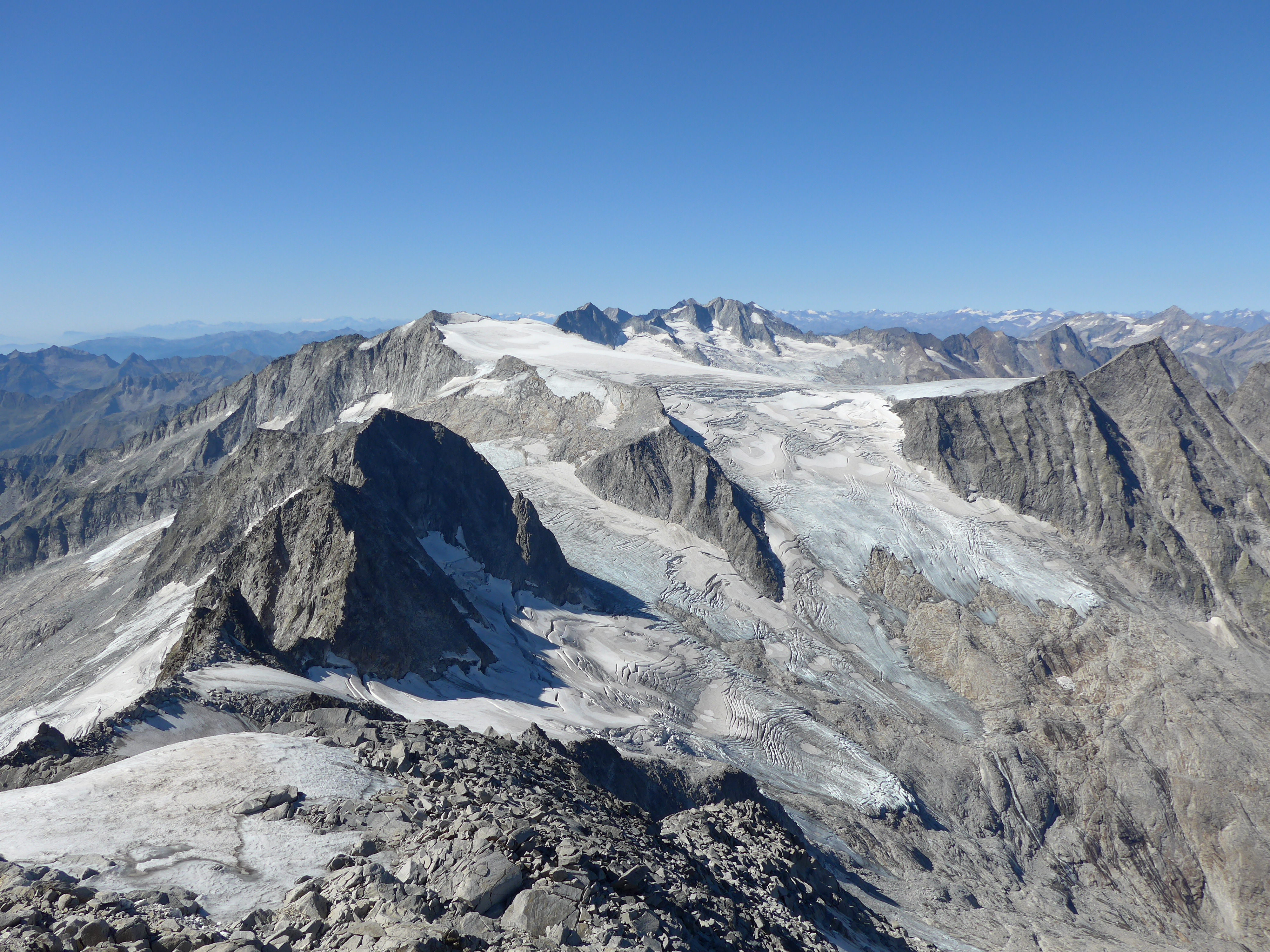 Schwarzenstein and Floitenspitzen from northeast, from Großen Löffler